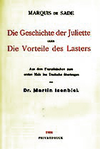 Juliette (novel) title page